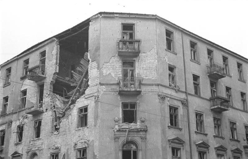 Warsaw during World War II